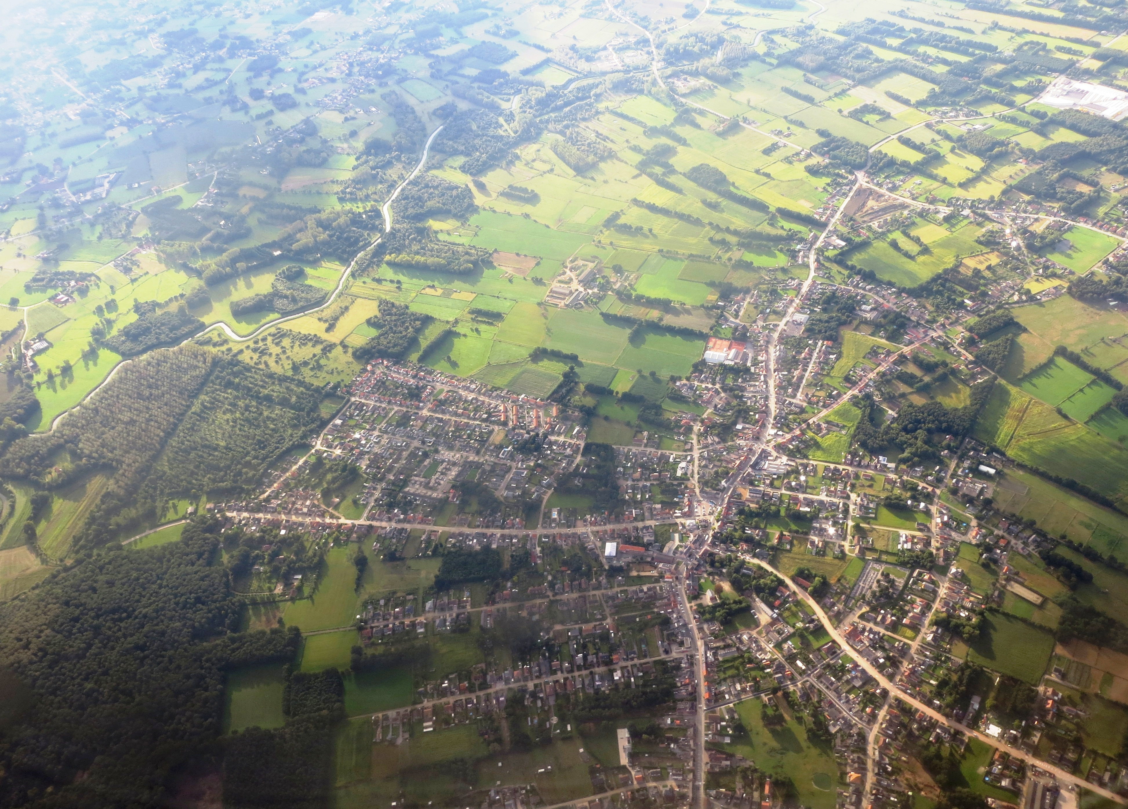 Aerial view from the (south)east towards (north)west, over the Hageland-Leuven region of northern Belgium. This municipality lies north of Brussels and west of Leuwen.